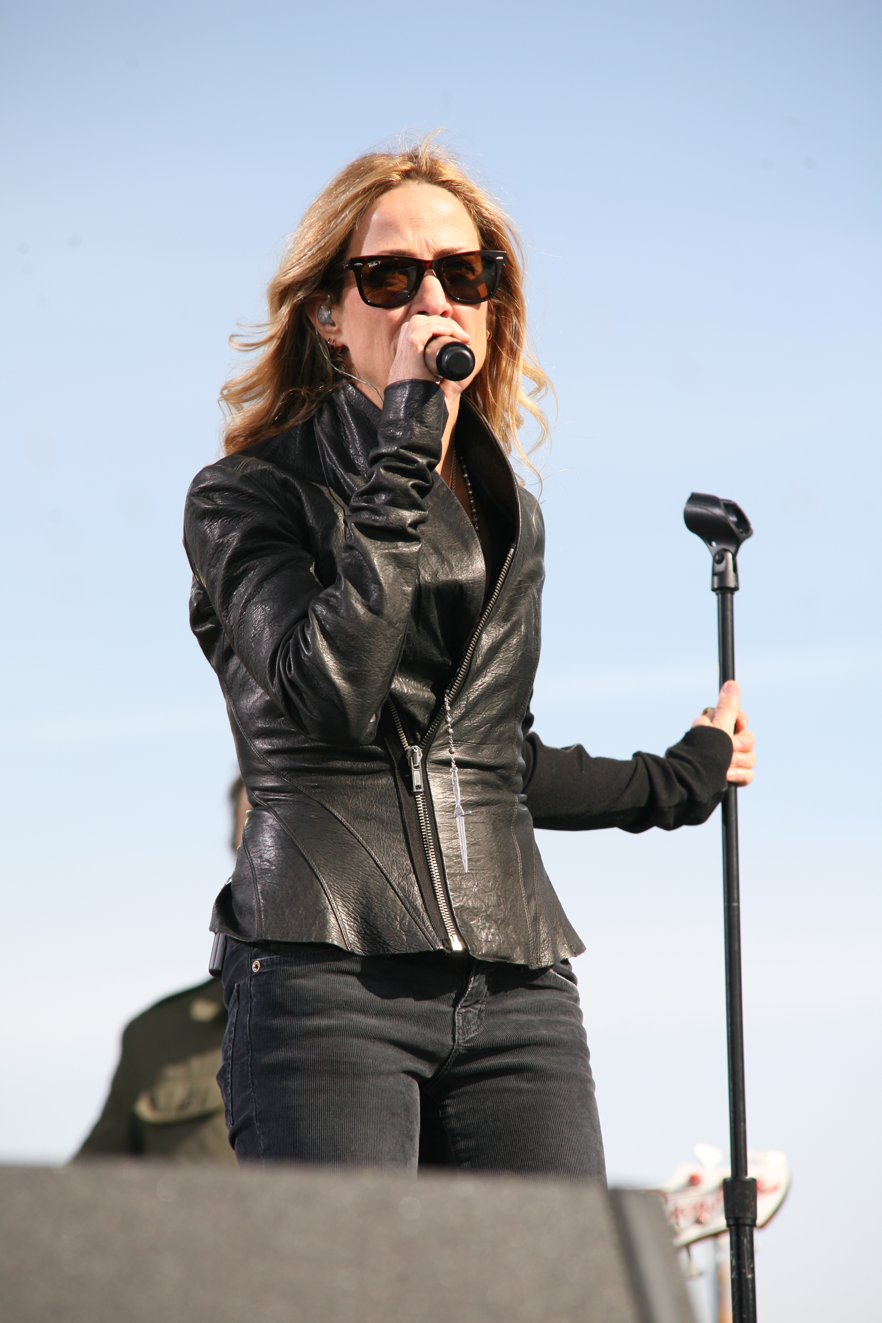 Sheryl Crow in Rally to Restore Sanity and/or Fear